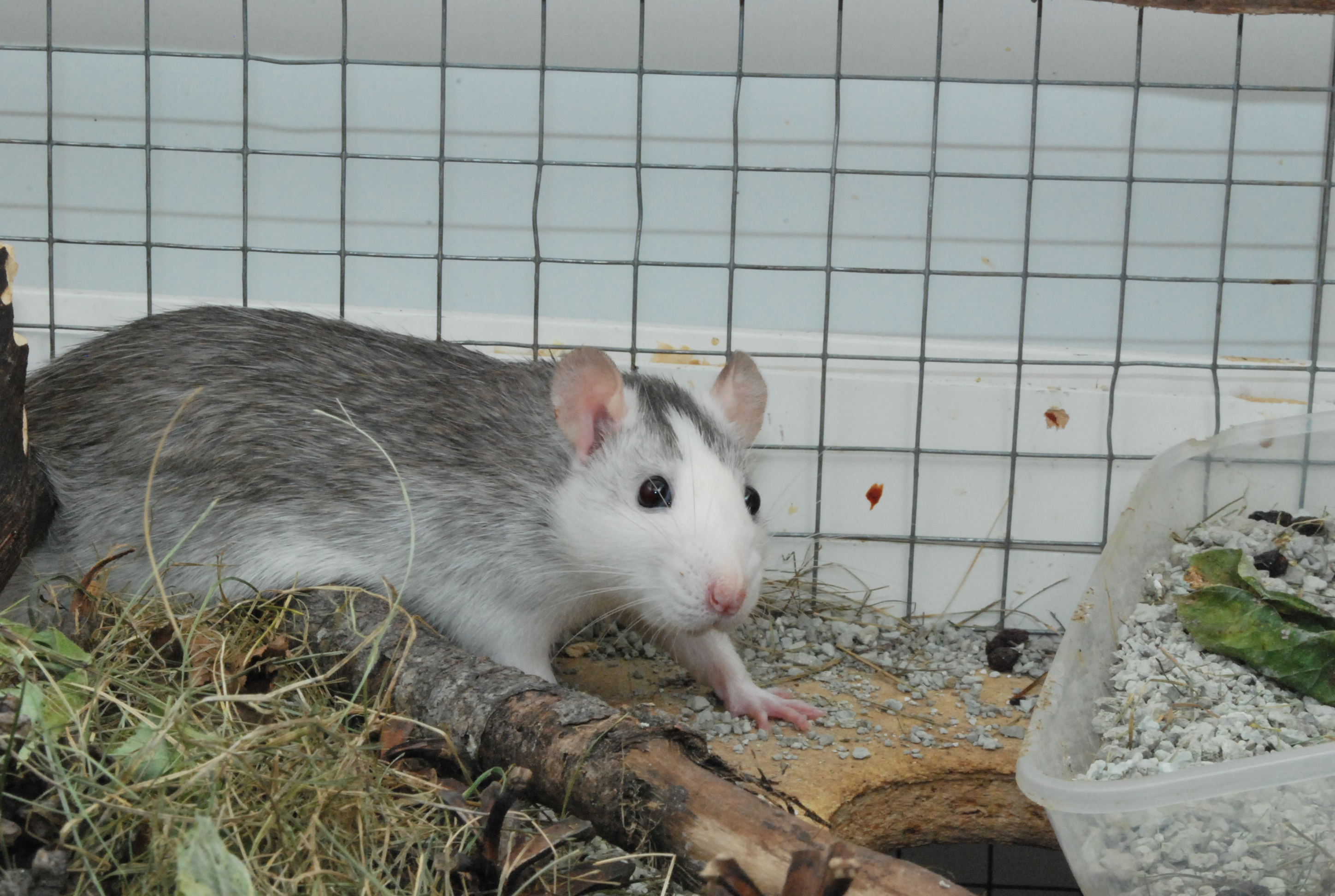 Husky Roan pet rat, female, 7 months old.